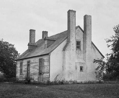 West St. Mary's Manor, West Saint Mary's Manor Road, St. Marys City vicinity (St. Mary's County, Maryland) (cropped). Image courtesy of the federal HABS—Historic American Buildings Survey of Maryland.